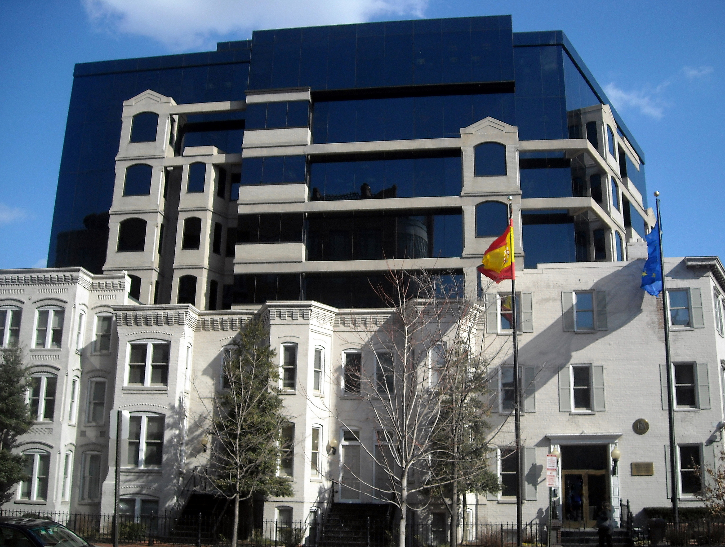 The Embassy of Spain, located at 2375 Pennsylvania Avenue, N.W., (Square 38) in the West End neighborhood of Washington, D.C. The facades of the row houses (built in the 1880s) visible in the foreground were incorporated into the embassy building.